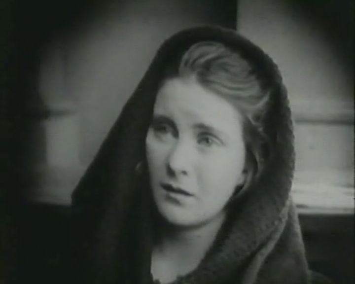 Scene from the movie Intolerance. 1916.